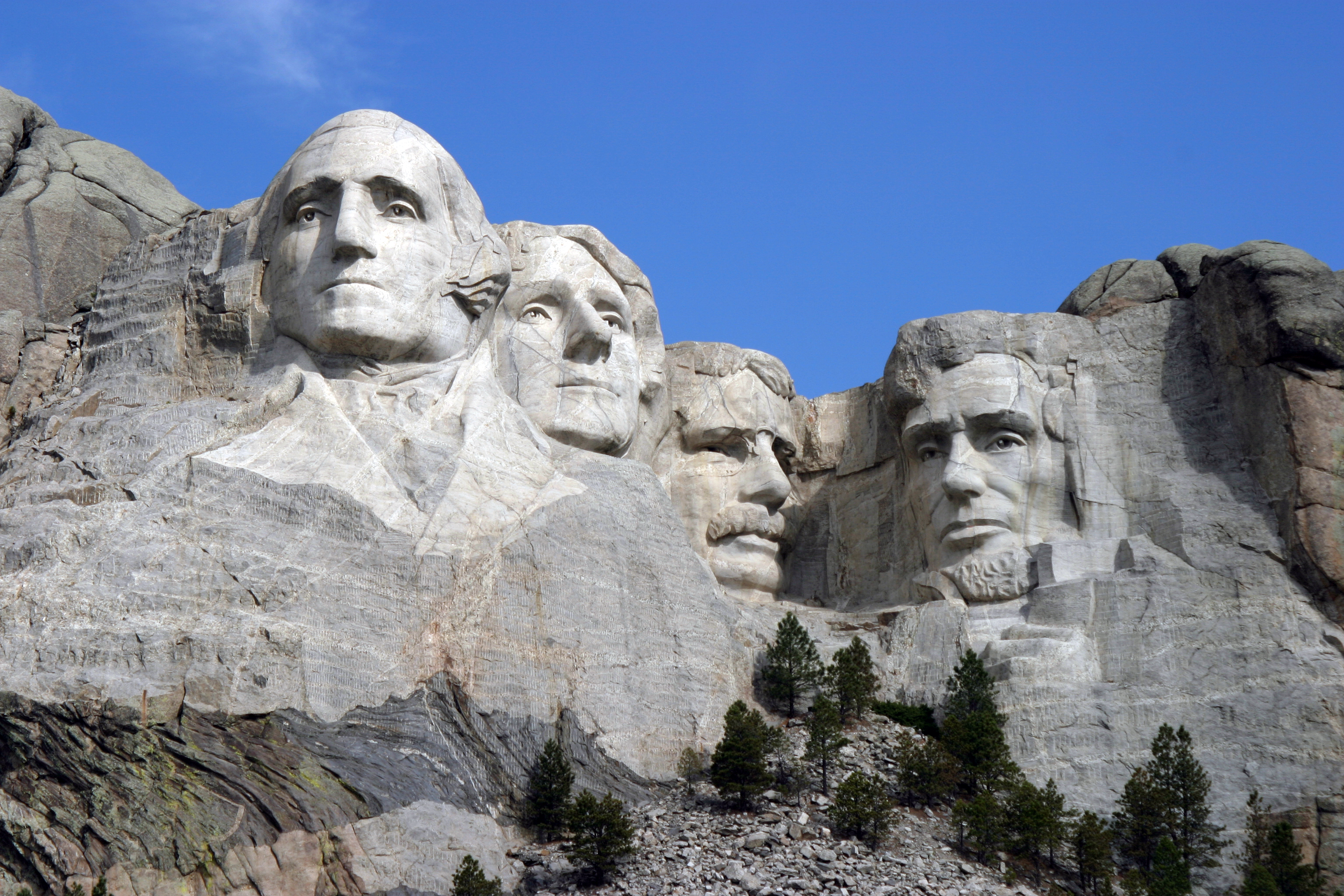 The Mount Rushmore Monument as seen from the viewing plaza.